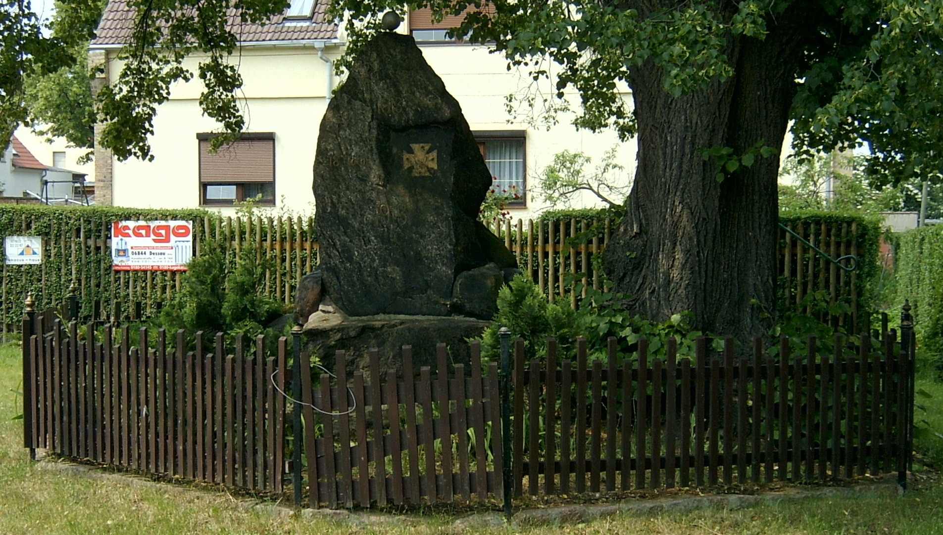 Church in Pißdorf